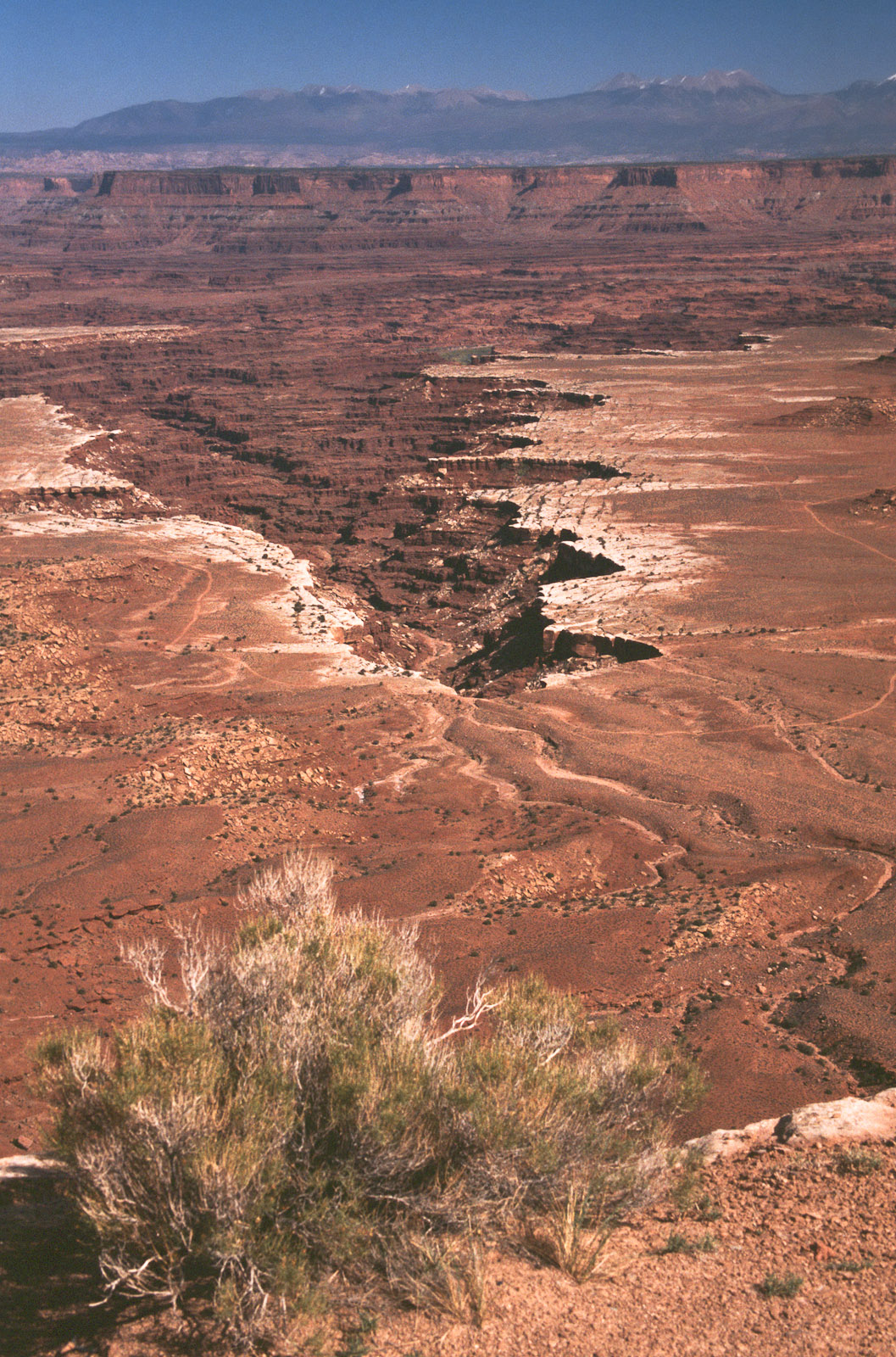 The White Rim from Mesa Arch. Resistant White Rim Sandstone, forming the "White Rim", at the top of canyon perimeters, north section of Canyonlands National Park. The view is eastward, with the La Sal Mountains on horizon, about 45-mi distant.